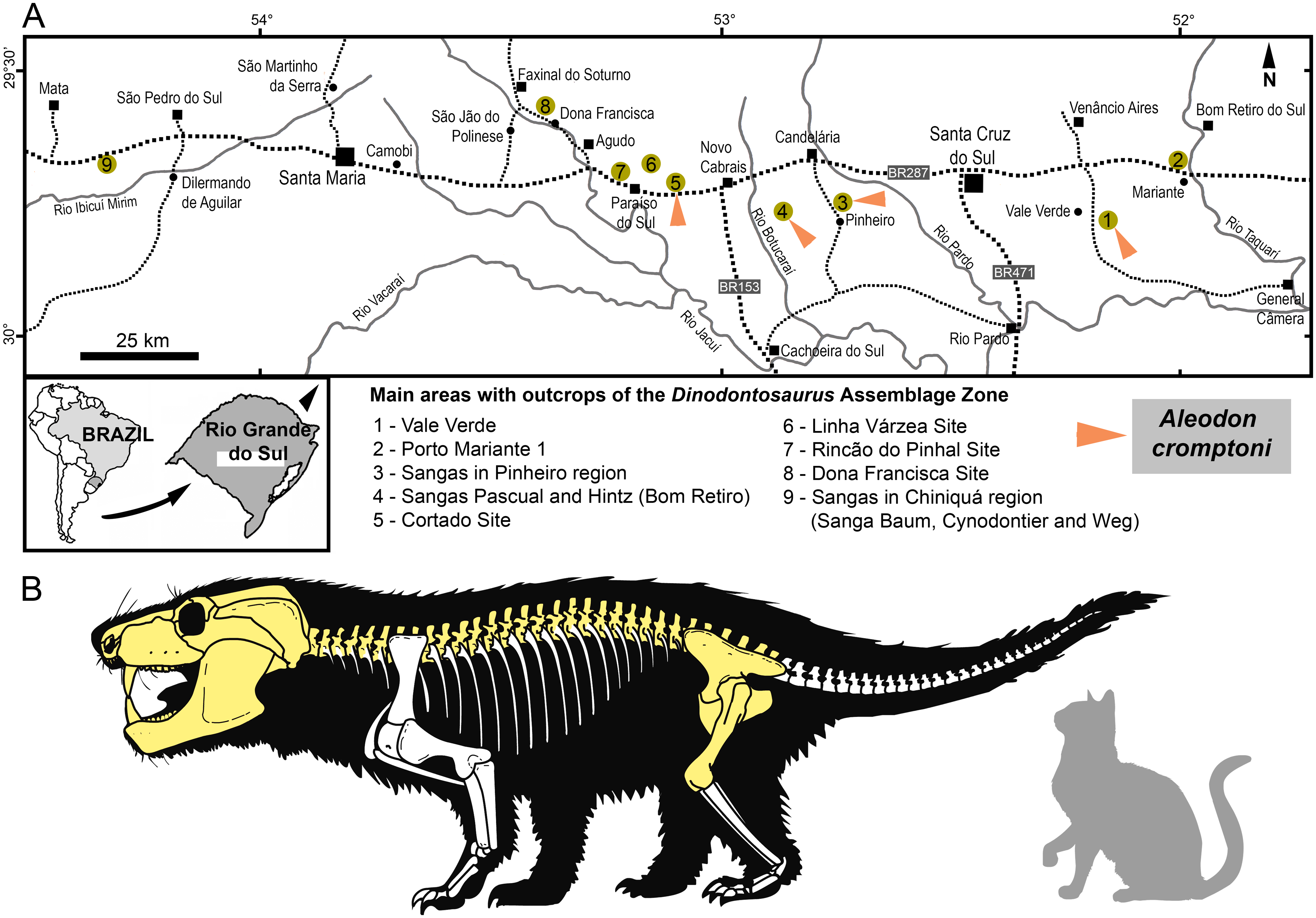 "Map of the main Middle to early Upper Triassic outcrops in the state of Rio Grande do Sul, southern Brazil, highlighting the occurrence of Aleodon (A) and its skeletal reconstruction with available bones (in yellow) based on all known specimens (made by VDPN)." (Martinelli et. al. 2017)